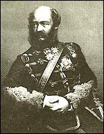 George Bingham, 3rd Earl of Lucan (1800-1888)